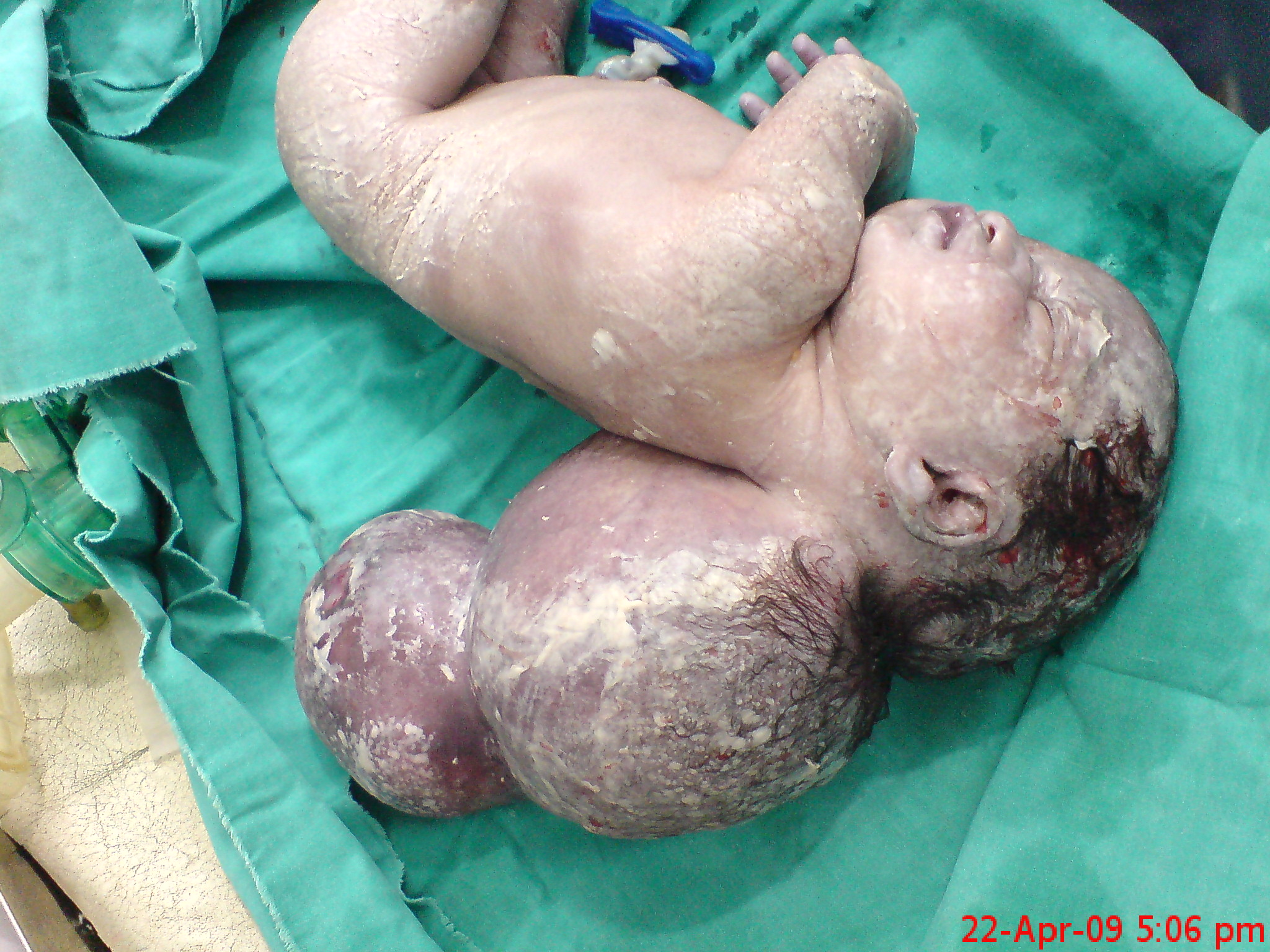 A large skin covered cyst is attached to a just born baby's head and filled with CSF. Another smaller cyst is attached to the larger cyst.